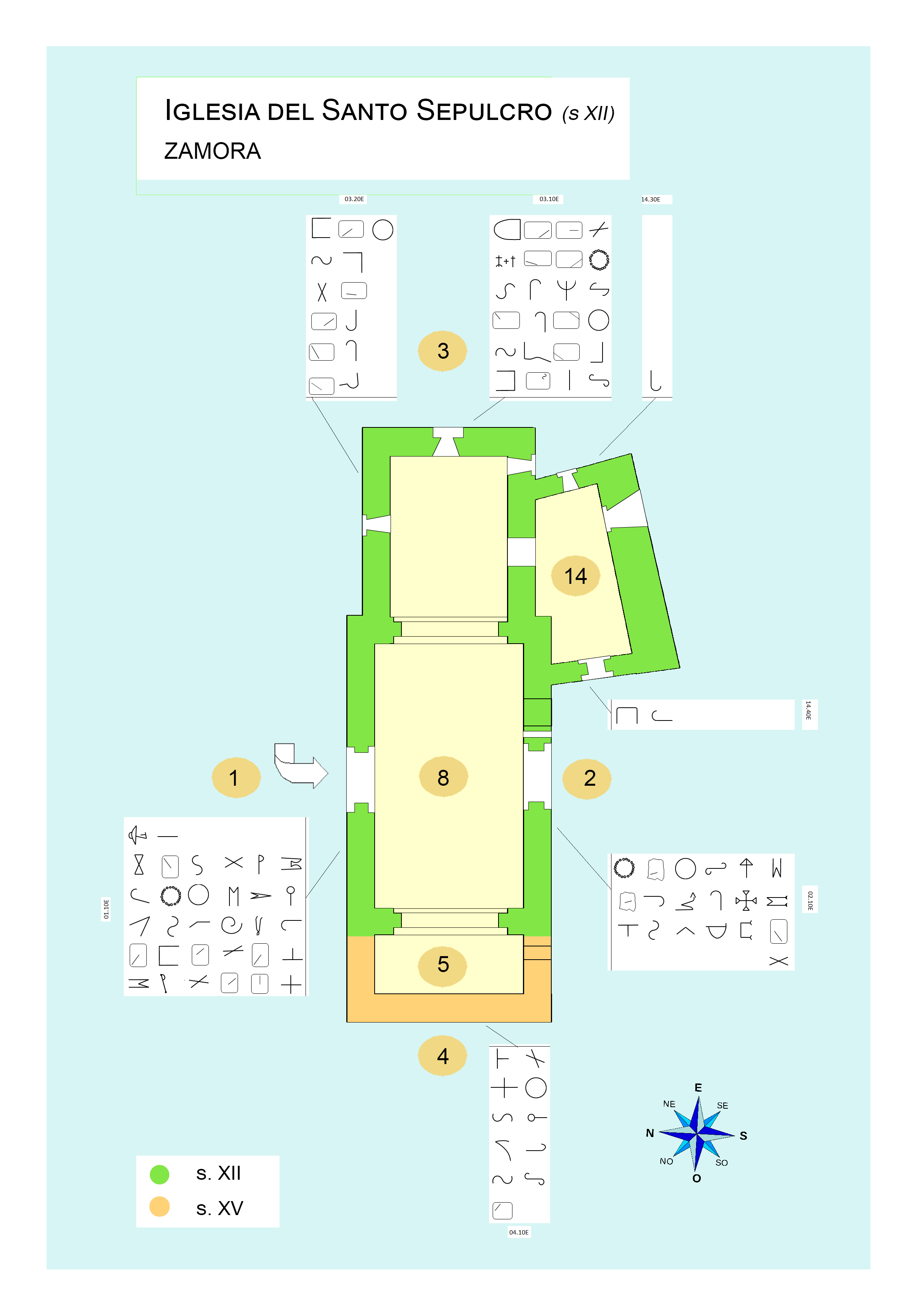 Santo Sepulcro church, ZAMORA (Spain), romanesque s. XII.Plan appro. and stonecutter mark.